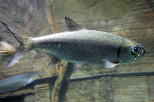 An Indo-Pacific tarpon (Thai: ปลาตา่เหลือก), or Megalops cyprinoides, at the Chiang Mai Zoo Aquarium, Thailand, in January 2011. Picture taken by myself.